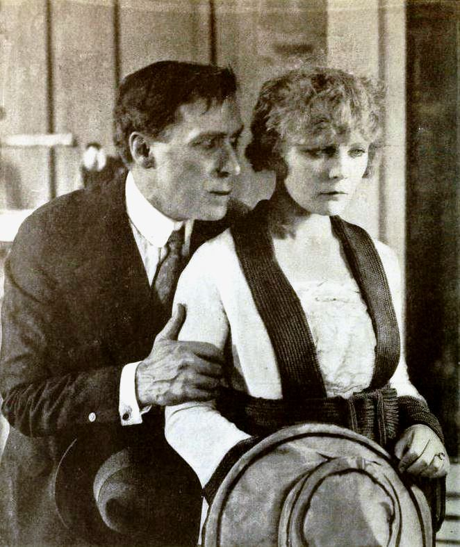 Still from the American western film John Petticoats (1919) with William S. Hart and Winifred Westover, on page 68 of the February 1922 Photoplay.